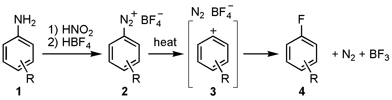 Description: Fluorination by Schiemann reaction. Source = Selfmade. Date = 5 July 2006. Made with ChemDraw.